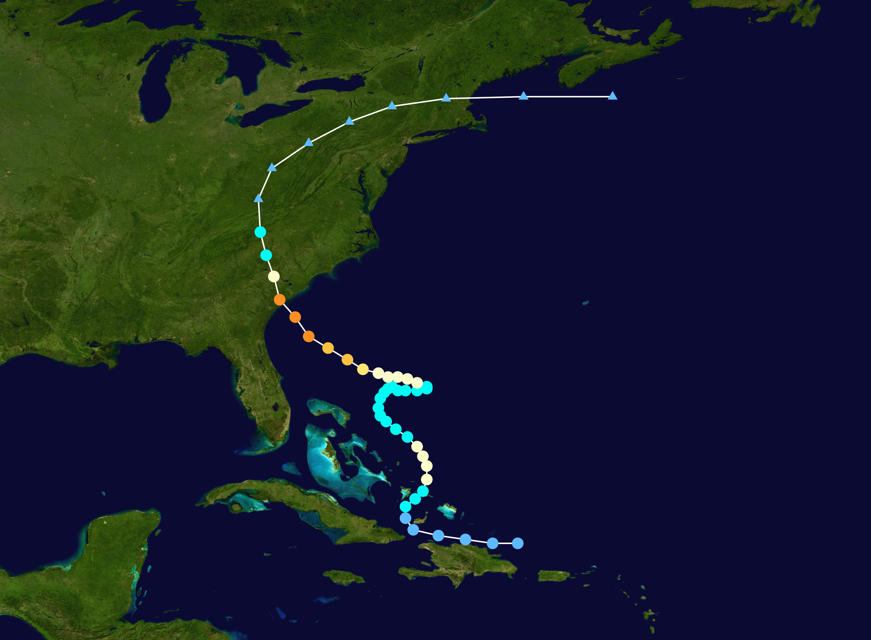 Hurricane Gracie (1959) track. Uses the color scheme from the Saffir-Simpson Hurricane Scale.